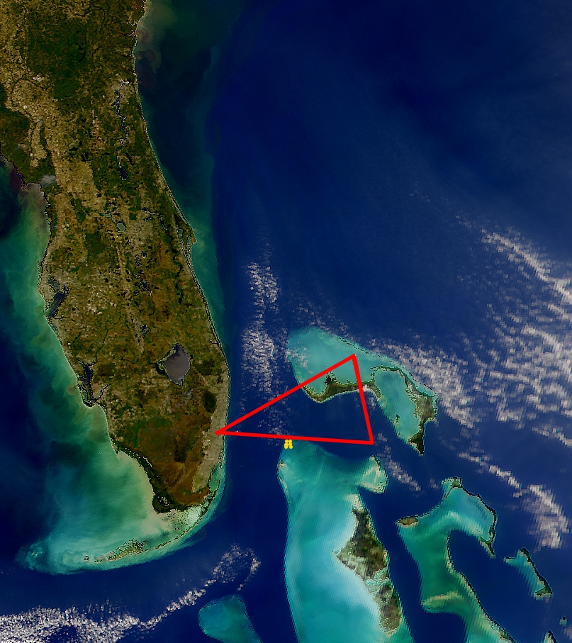 Flight plan for Flight 19 on December 5, 1945 (red line). Red 'X' indicates possible location of Flight 19 based on final radio fix. Yellow line indicates path of Training 49; yellow 'X' is probable site of explosion. This file is in the public domain because it was created by NASA. NASA copyright policy states that "NASA material is not protected by copyright unless noted". (NASA copyright policy page or JPL Image Use Policy). This NASA image was altered for this article.